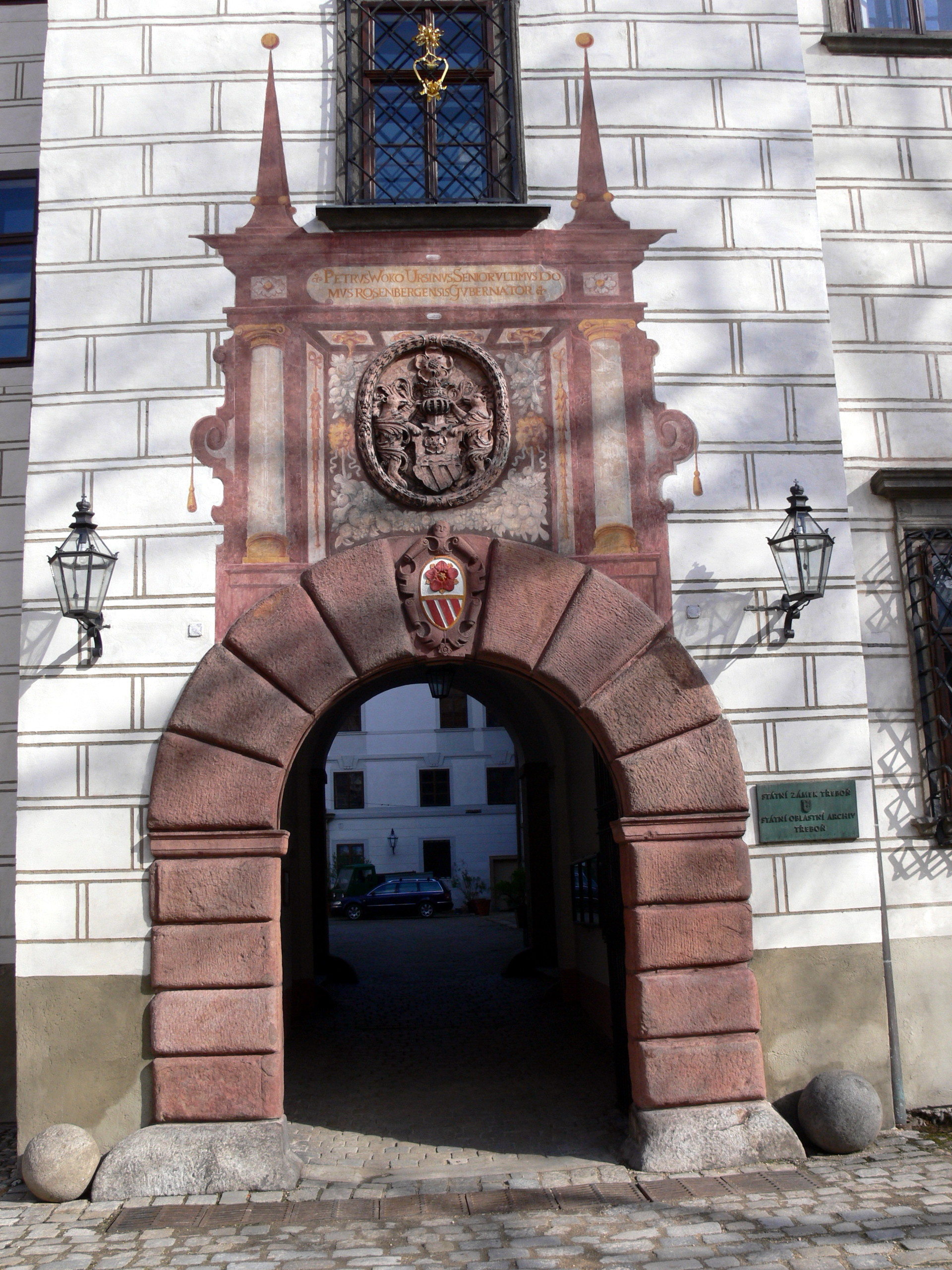 Třeboň castle. Gate to the inner courtyard named after Peter Wok of Rosenberg.